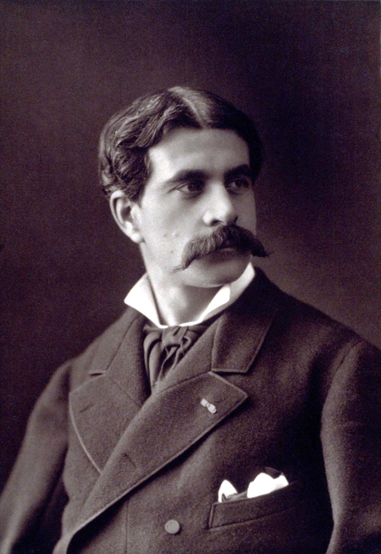 French painter and sculptor Jean-Jules-Antoine Lecomte du Noüy (1842-1923) photographed by Nadar (1820-1910)